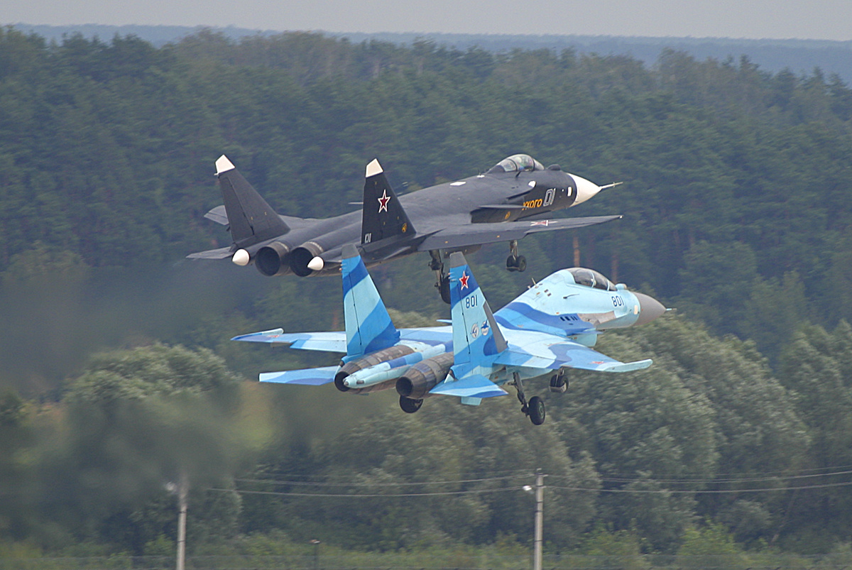 Sukhoi Su-35UB combat trainer and Su-47 experimental fighter flying together at MAKS-2003 airshow